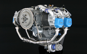 moteur SMA SR305-230